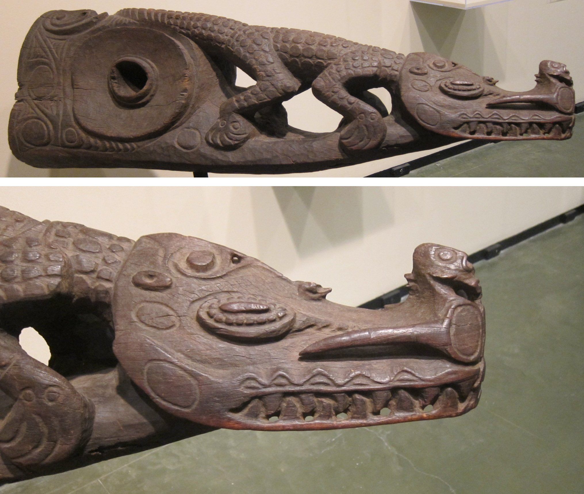 Slit gong drum (garamut) finial, Papua New Guinea, Iatmul people, Middle Sepik River region, carved wood, Honolulu Museum of Art